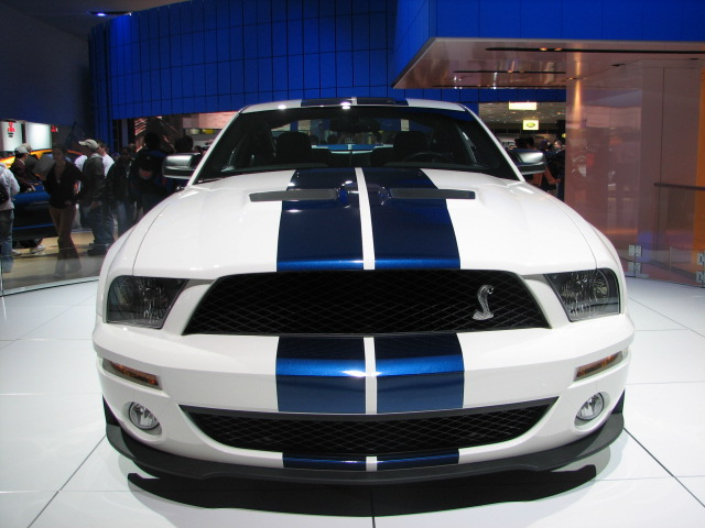 2007 Ford Shelby GT500